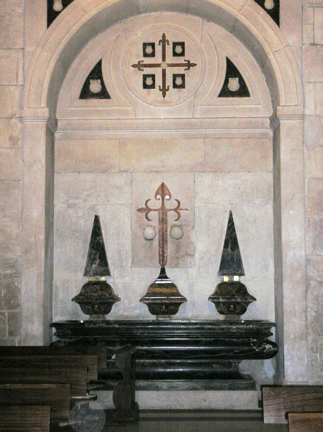 Taken by Valdoria. Oct. 2006